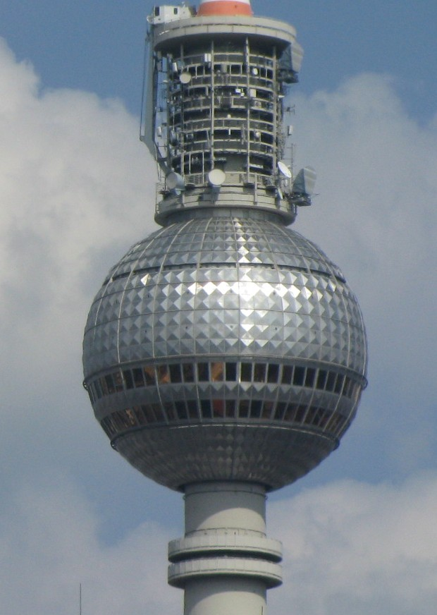 The Pope's Revenge on the sphere of Berliner Fernsehturm